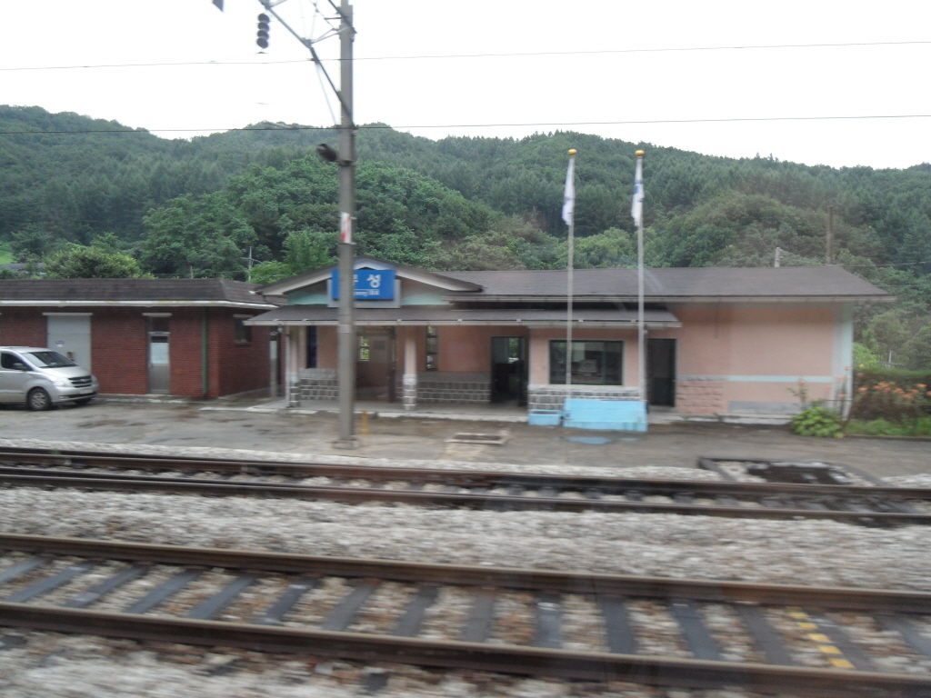 Korail Bongseong Station